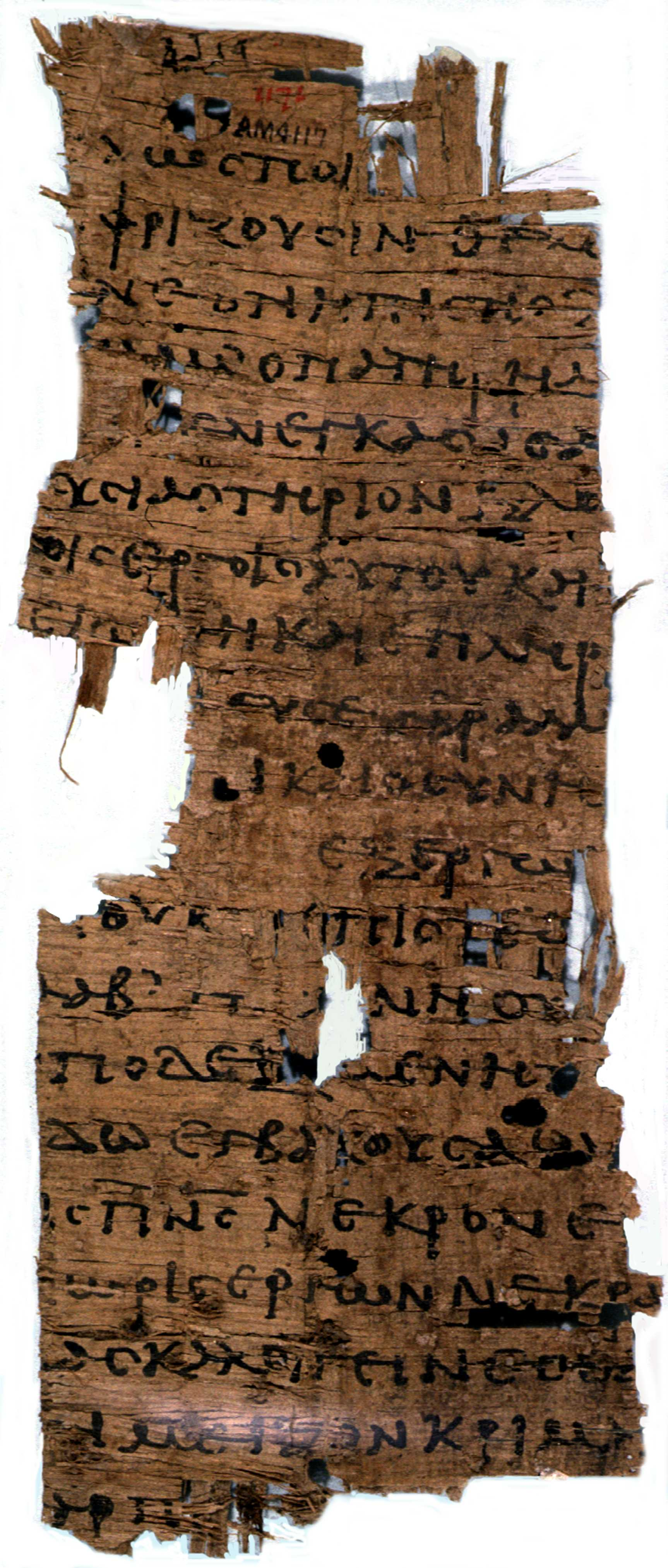 Papyrus 20 - Papyrus Oxyrhynchus 1171 - Princeton University Library, AM 4117 - Epistle of James 2:26–3:9